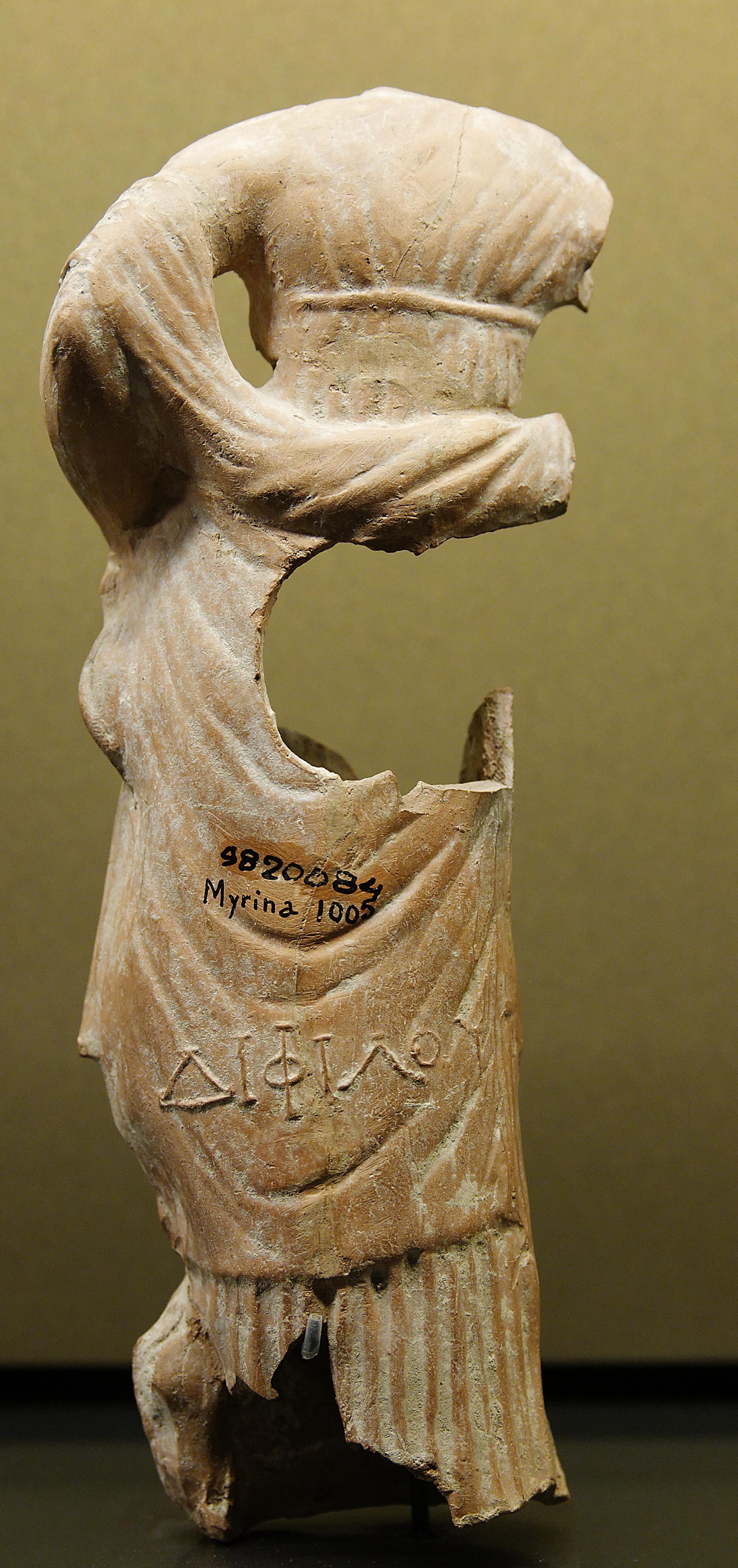 Draped woman standing, with the signature "Diphilos". Terracotta figurine of Myrina, late 1st century BC.